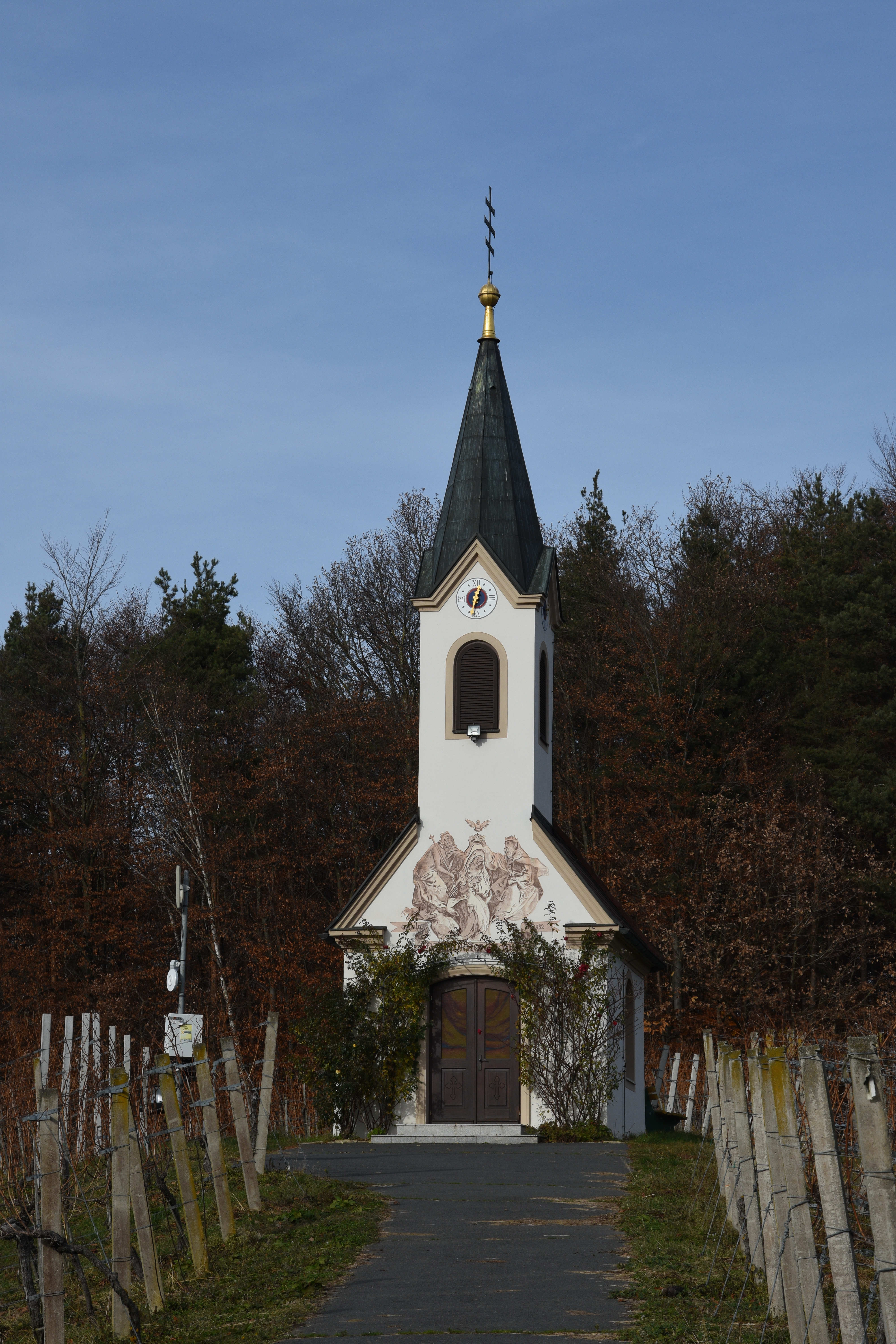 Chapel Schichenau